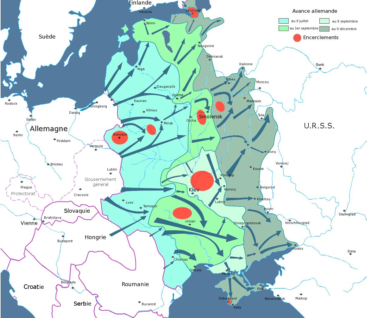 Map of east front in 1941